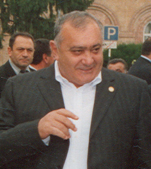 Andranik Margaryan (1951-2007, Prime Minister of Armenia during 2000-2007) and the Primate of the Diocese of Gougark Bishop Sebouh Chouldjian.